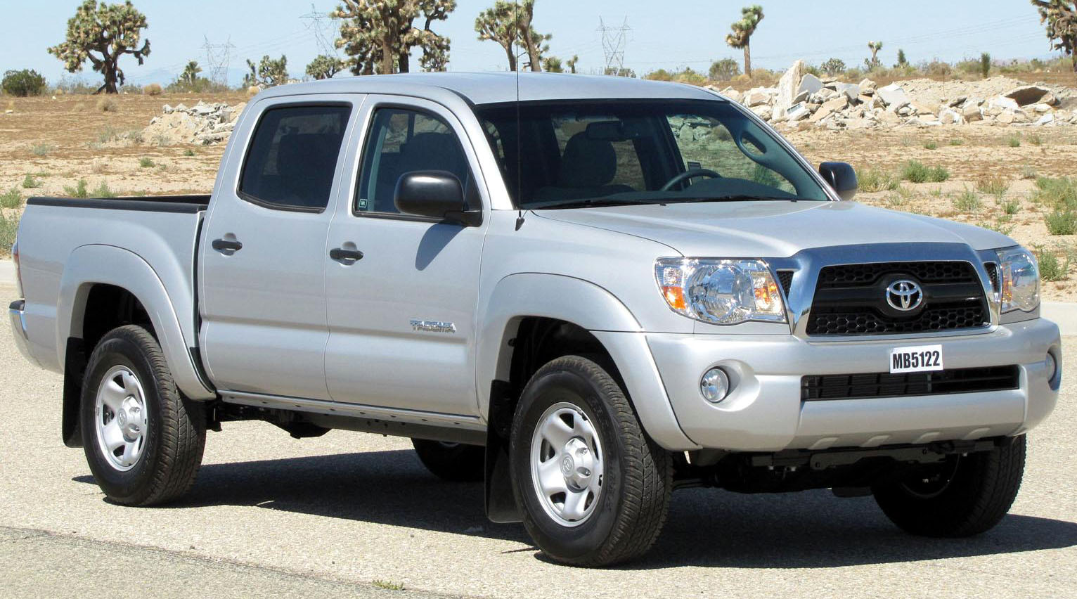 2011 Toyota Tacoma photographed in USA.